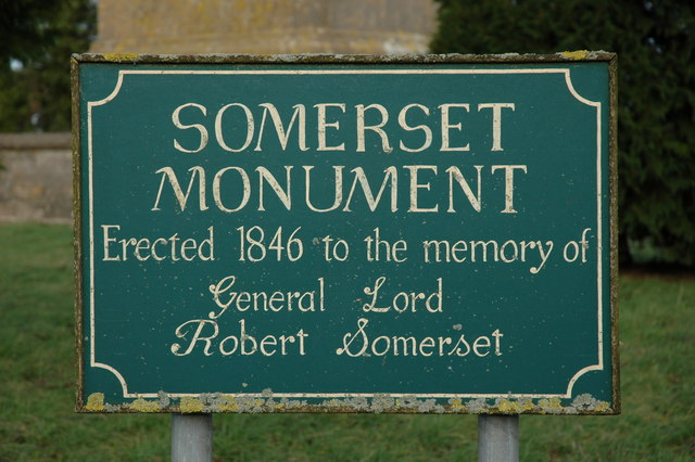 Information about the Somerset Monument